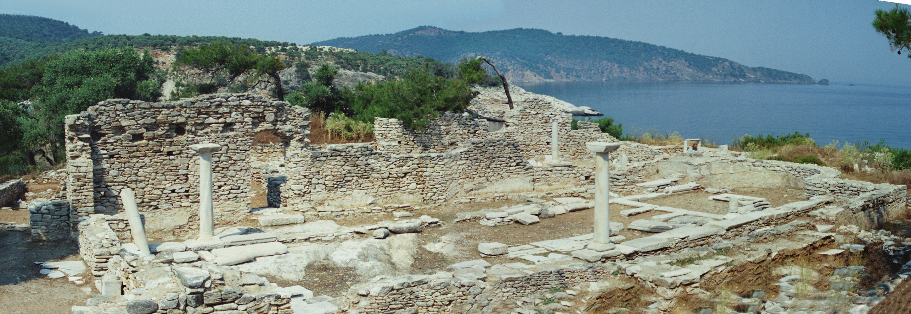 Southern basilica of Aliki from SW, background: bay of Ag. Ioanni Luka, right: cape Bambouras (1980)